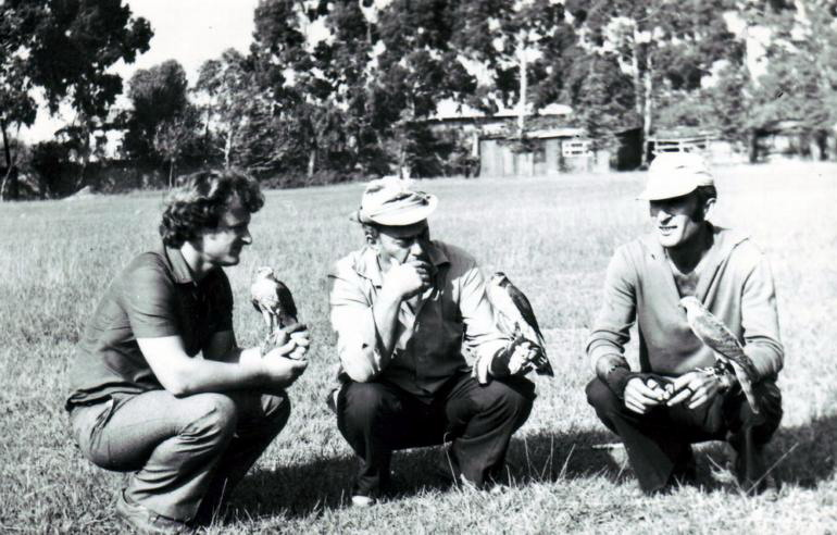 Georgian falconers with sparrowhawks (Accipiter nisus)